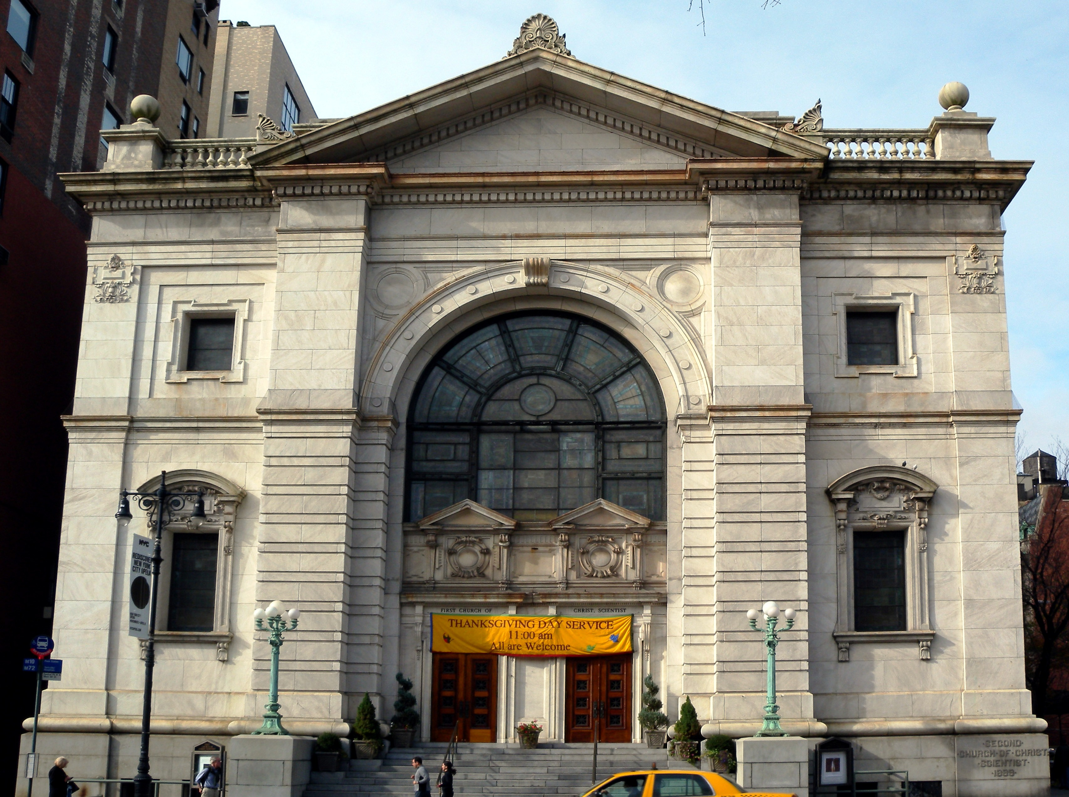 Lookng west across Central Park West at Church of Christ, Scientist on 68th Street on a sunny early afternoon.